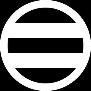 Crest of Satomi etc